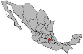 Location of Naucalpan, México, Mexico